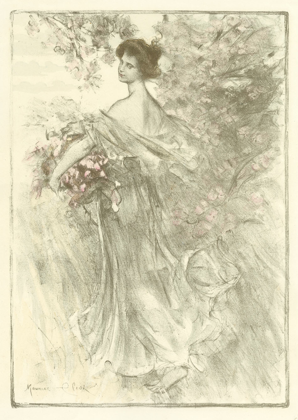 Printemps [Spring] by Maurice Eliot, lithographic print from L'Estampe moderne, vol. I, Paris, F. Champenois.